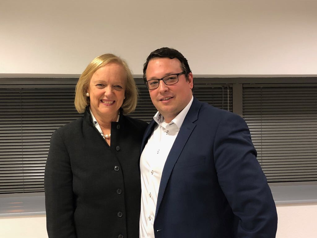 1:1 Meeting with Meg Whitman to discuss data driven innovation